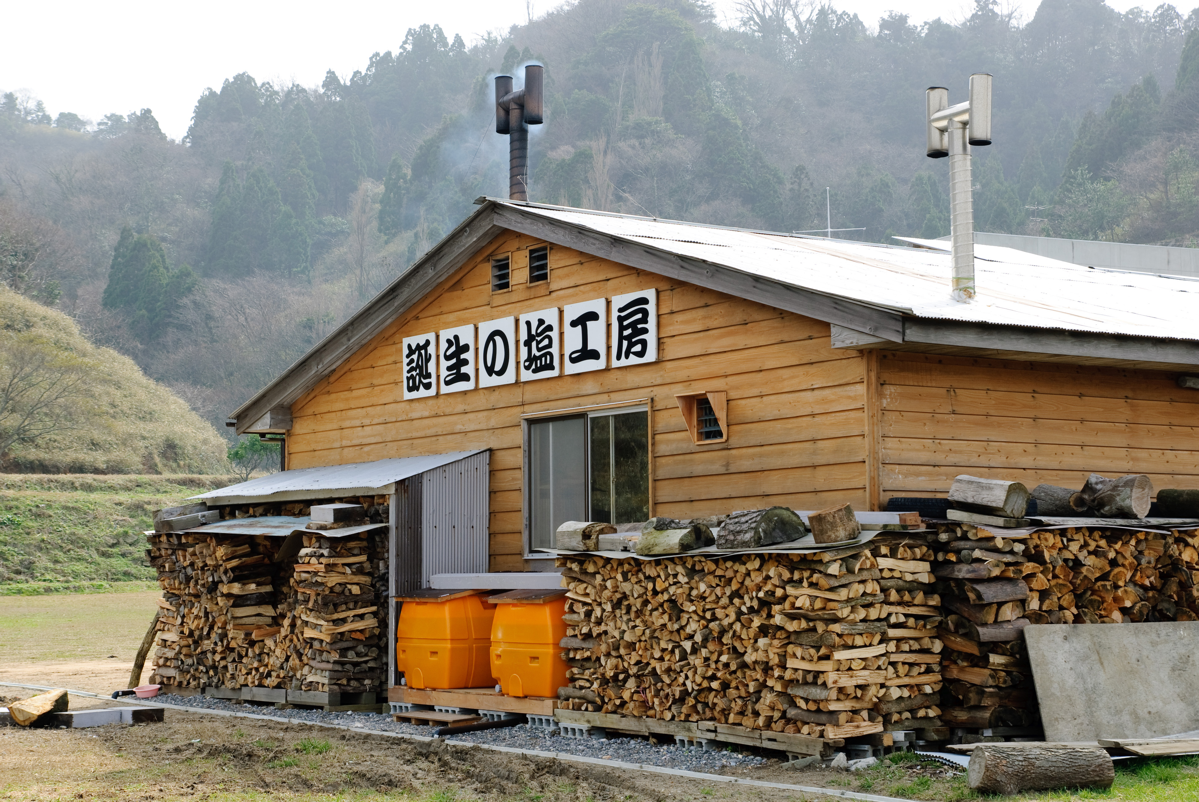 Takeno Tanjyono Sio Kobo.